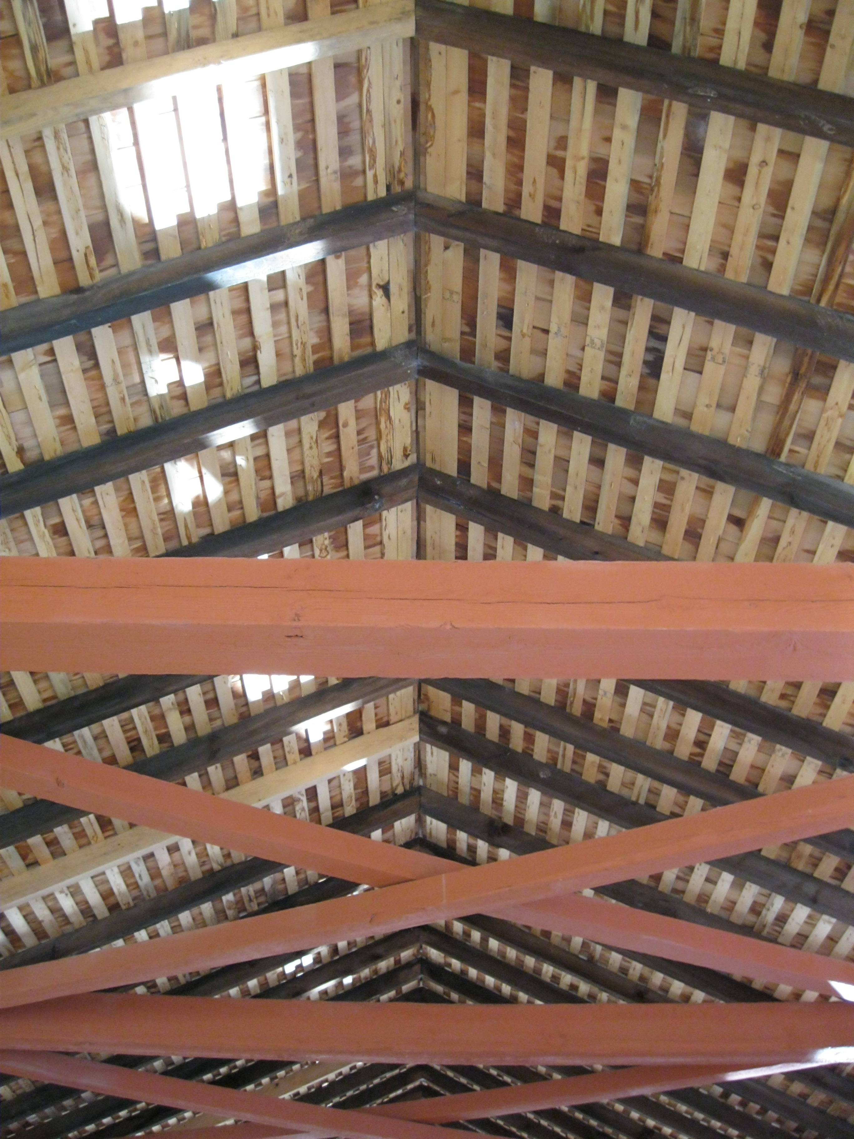 Rafters and underside of roof of Hillsgrove Covered Bridge in Hillsgrove Township, Sullivan County, Pennsylvania, USA. After the 2010 restoration.